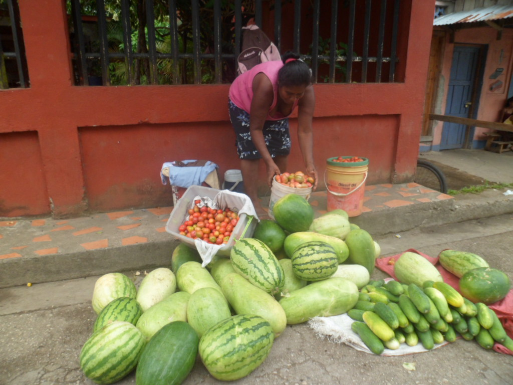 Women from miskitu peoples selling watermelons